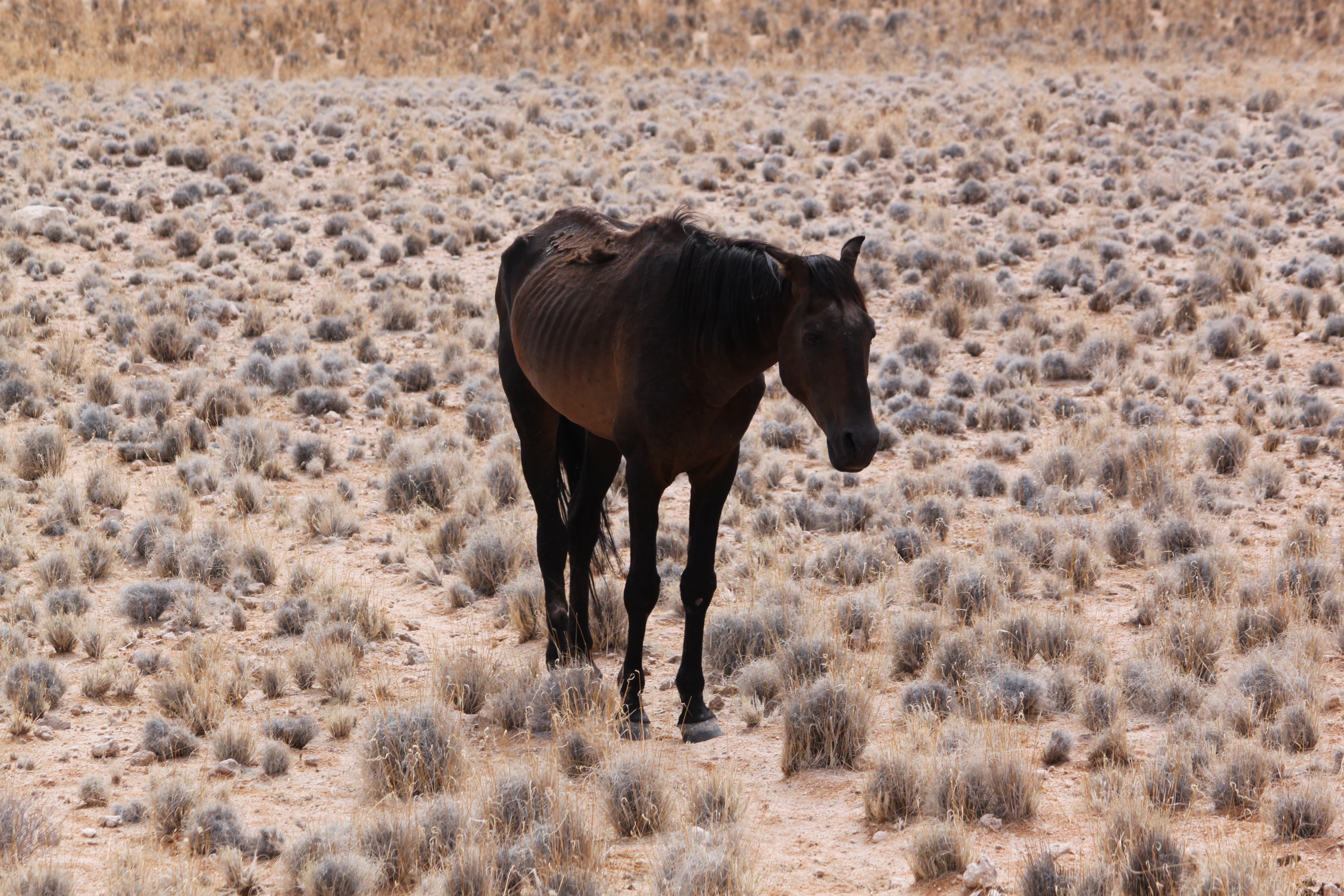 Desert horse in the Namib, Namibia